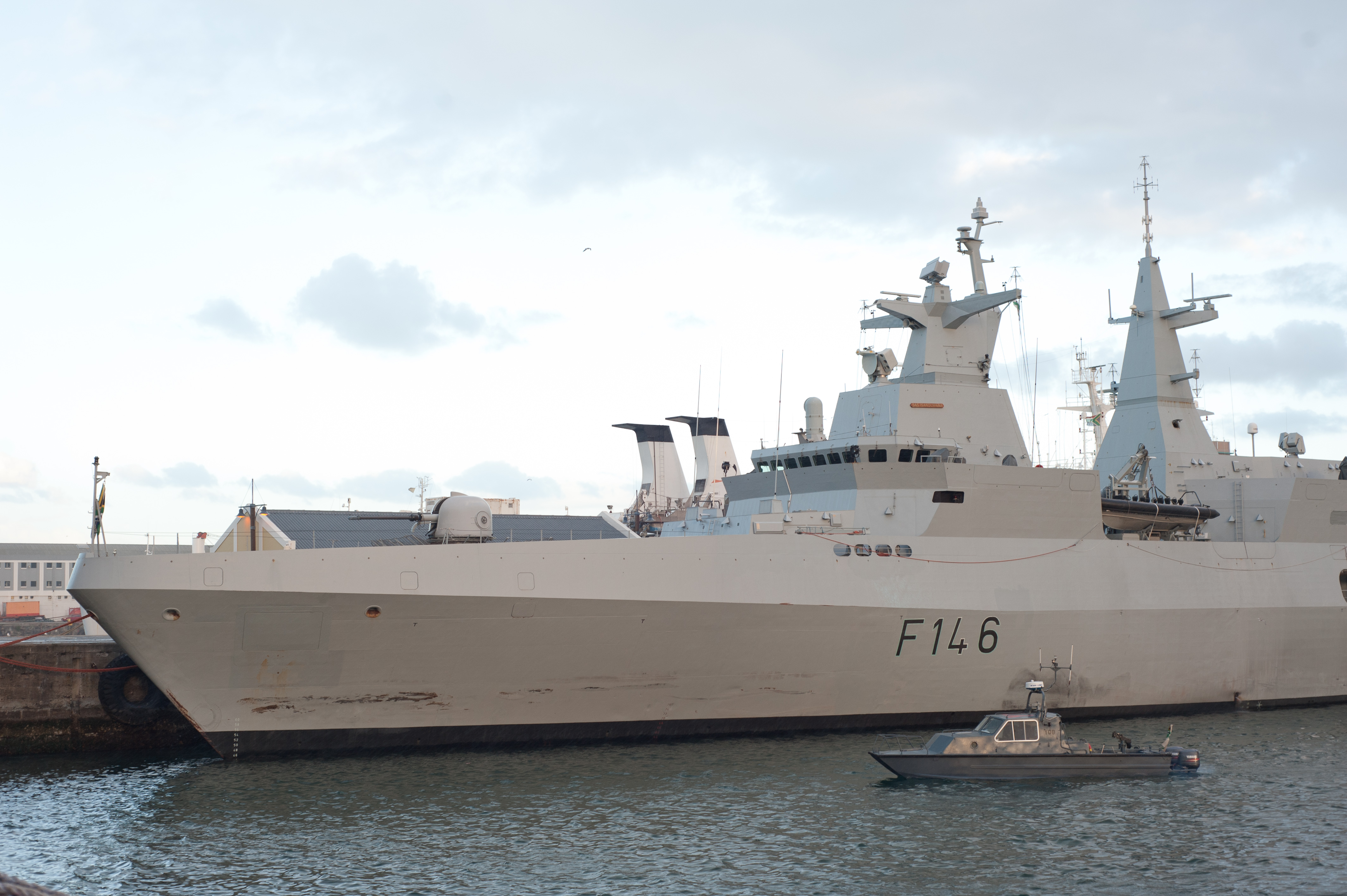 Valour class patrol corvette SAS Isandlwana (F146) moored at V&A Waterfront's Victoria Basin in Cape Town.